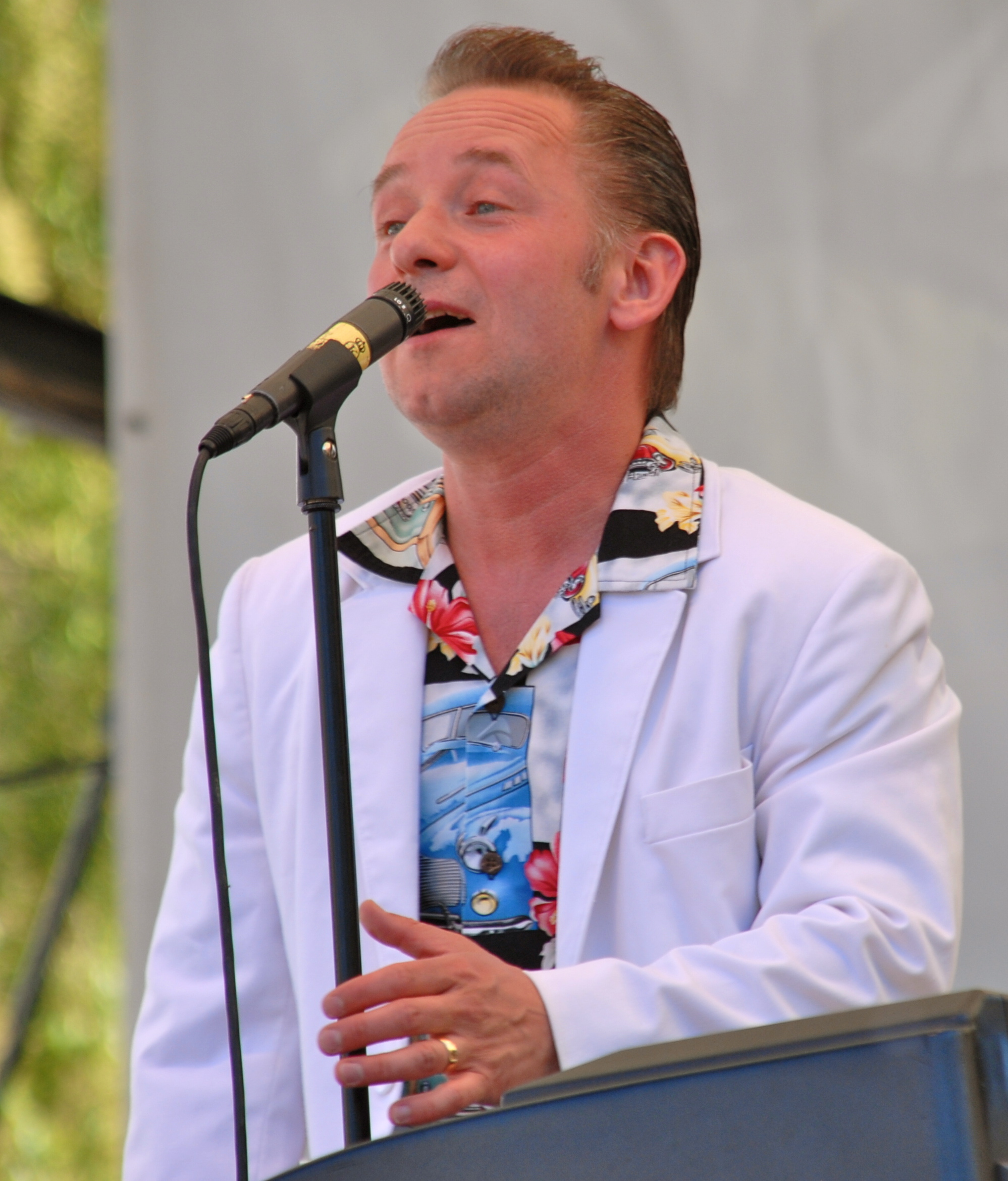 Kingen sings in Kungsträdgården in Stockholm june 3, 2011.